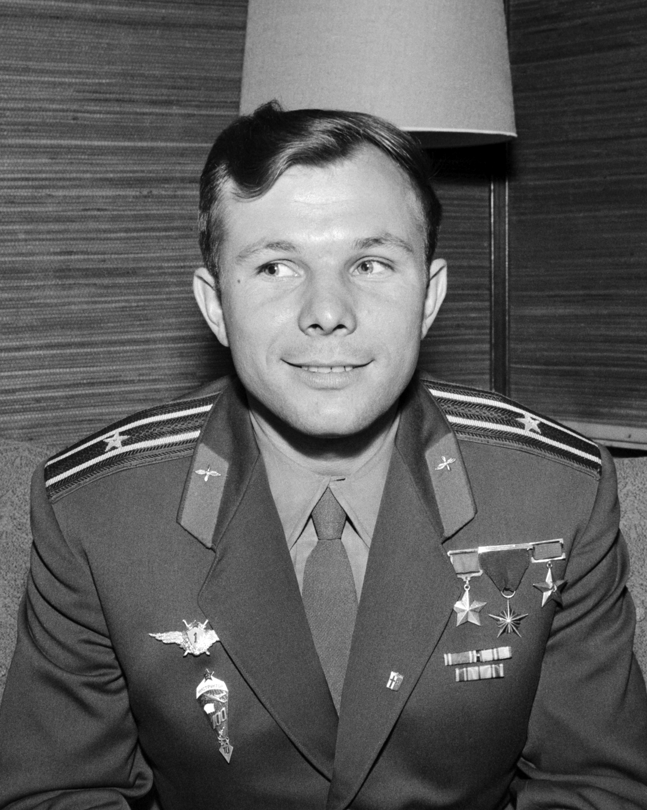 Photograph of the Soviet cosmonaut Yuri Gagarin at a press conference during his visit to Finland.